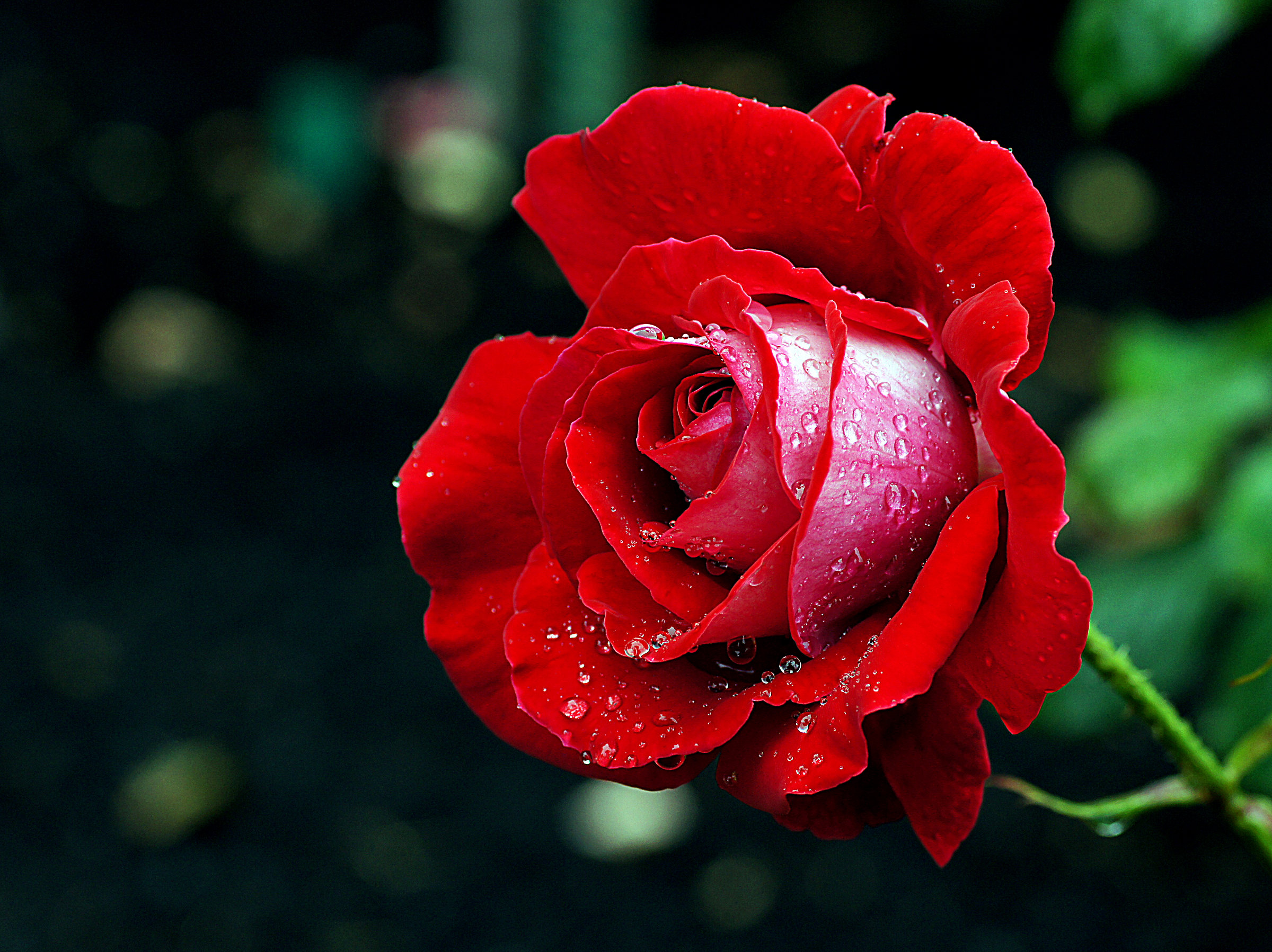 Roses are the most widely cultivated plants in gardens and parks, and the plants with the longest horticultural history, since they've been grown in every part of the world for centuries. It is the national plant of the USA and of England. What's more, they are the universal symbol of love and beauty. When you offer a rose, bear in mind that certain rose colors carry specific symbolic meanings